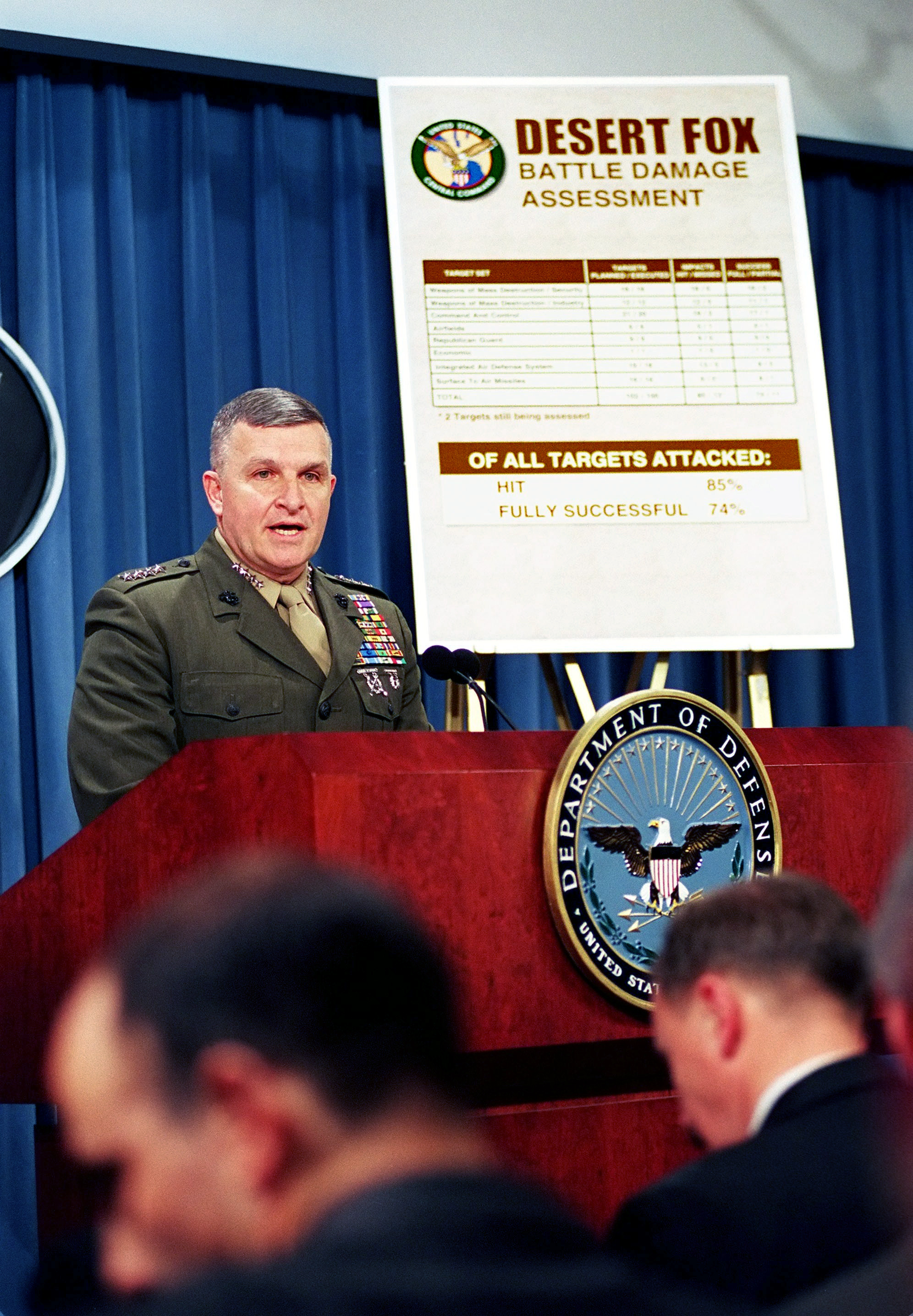 Marine Corps Gen. Anthony C. Zinni, commander U.S. Central Command, briefs reporters at the Pentagon following Operation Desert Fox, the four-day bombing campaign against Iraq.